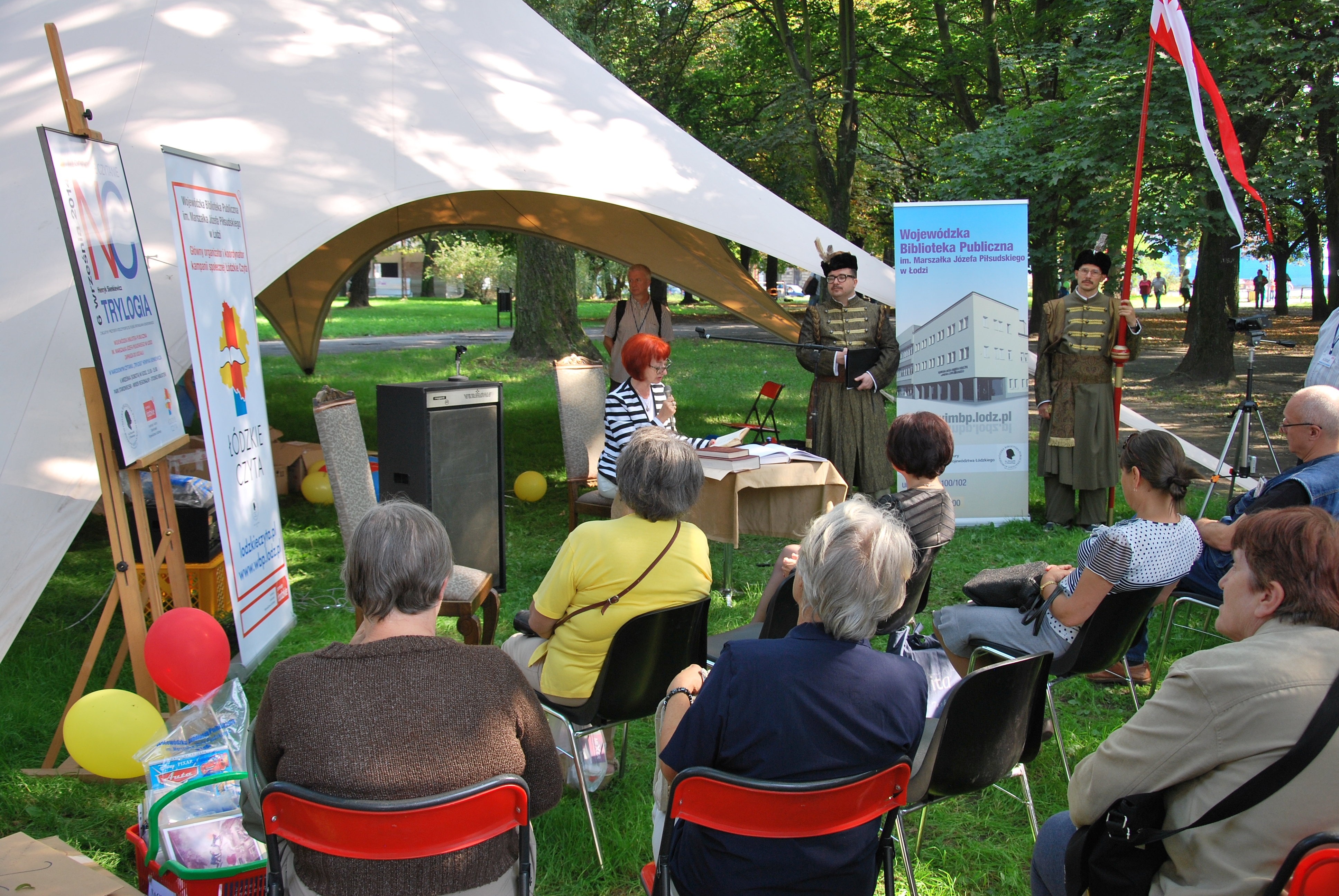 National Reading of Trilogy by Sienkiewicz, Łódź September 2014